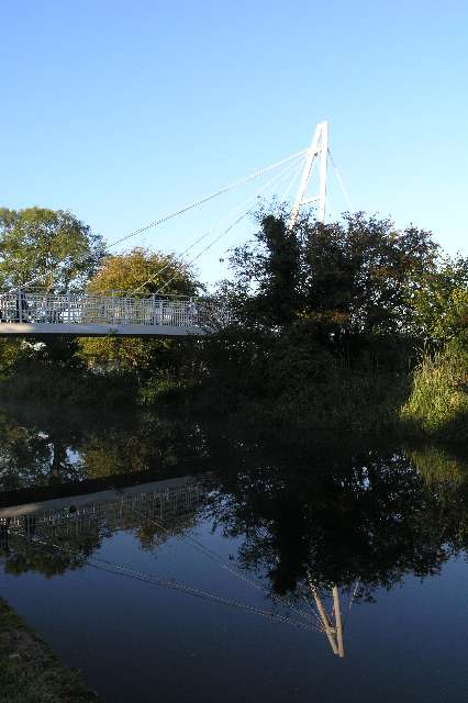 Foot bridge over Erewash canal